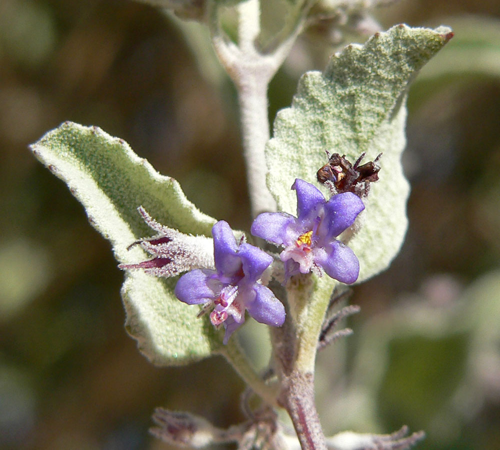 Hyptis emoryi in wash east of the Dead Mountains near junction of Needles Highway and River Road, southern California